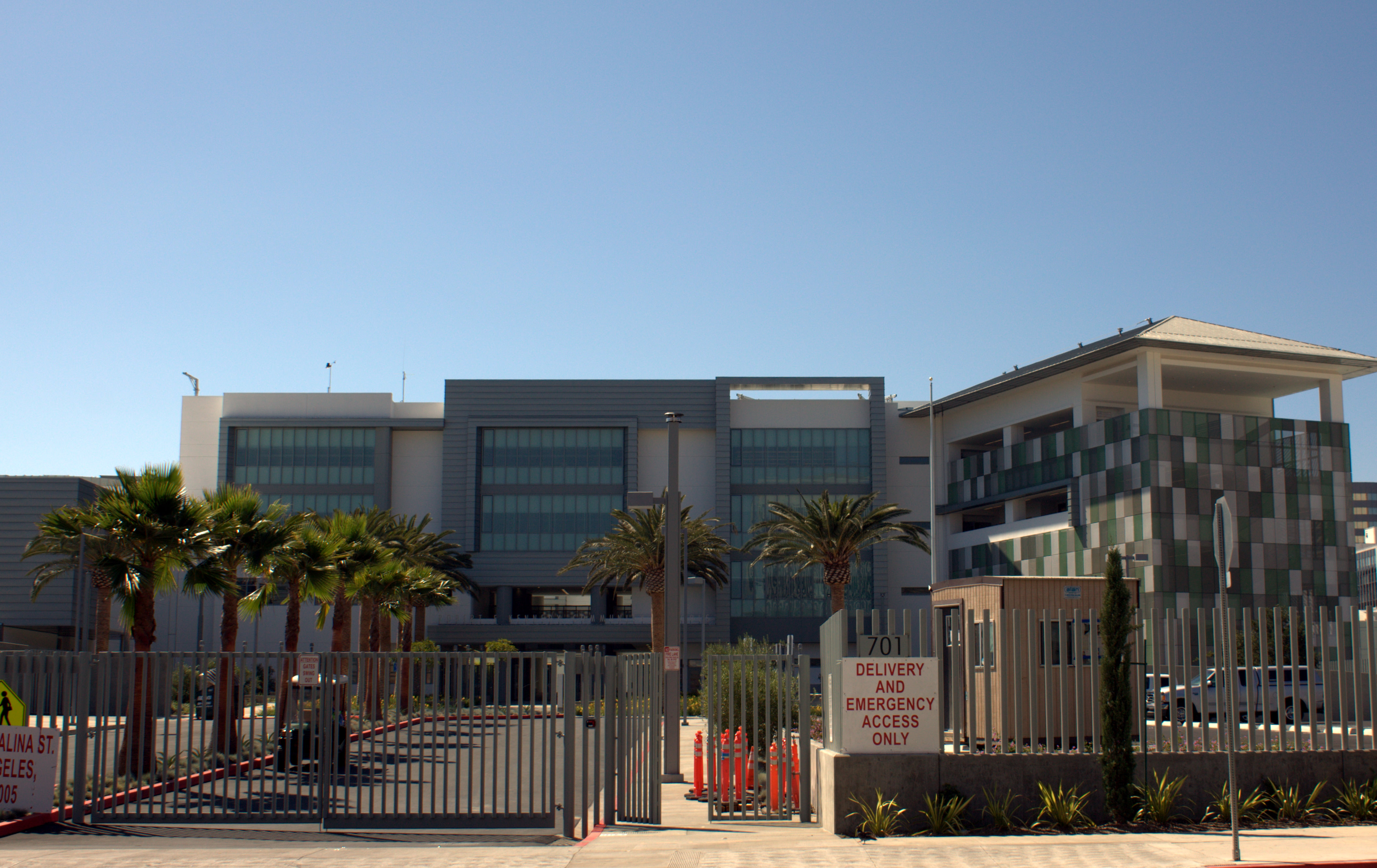 Robert F. Kennedy Community Schools from Catalina Street.